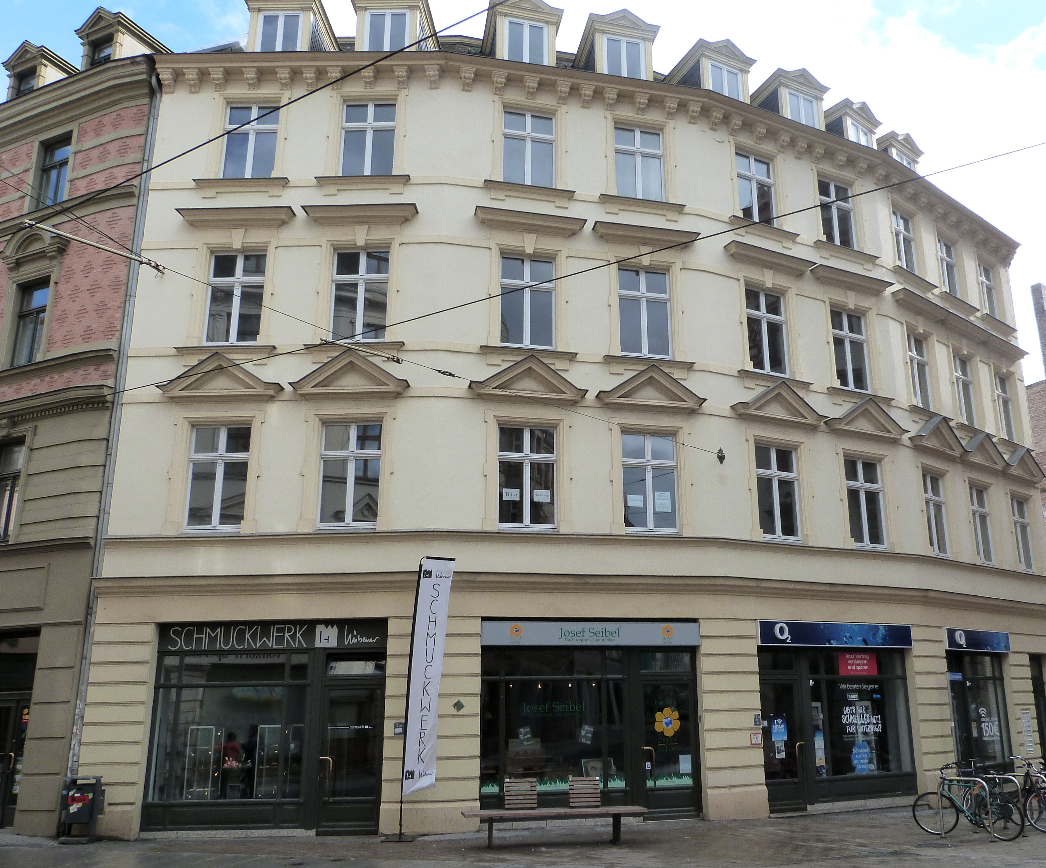 House No. 25, Grosse Ulrichstrasse, Halle (Saale)